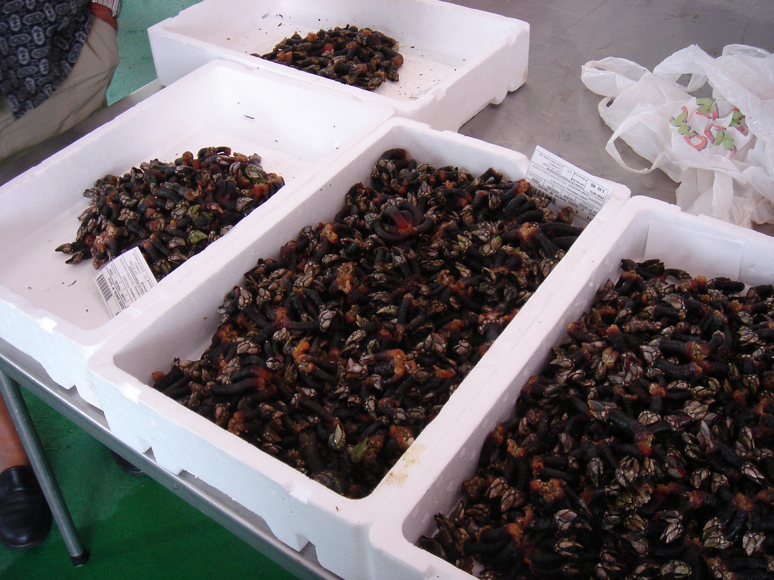 Barnacles at Corme-Puerto (Spain)